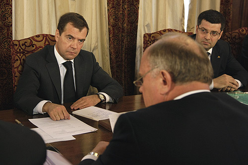 KIROV. Dmitry Medvedev with Oleg Denisenko.